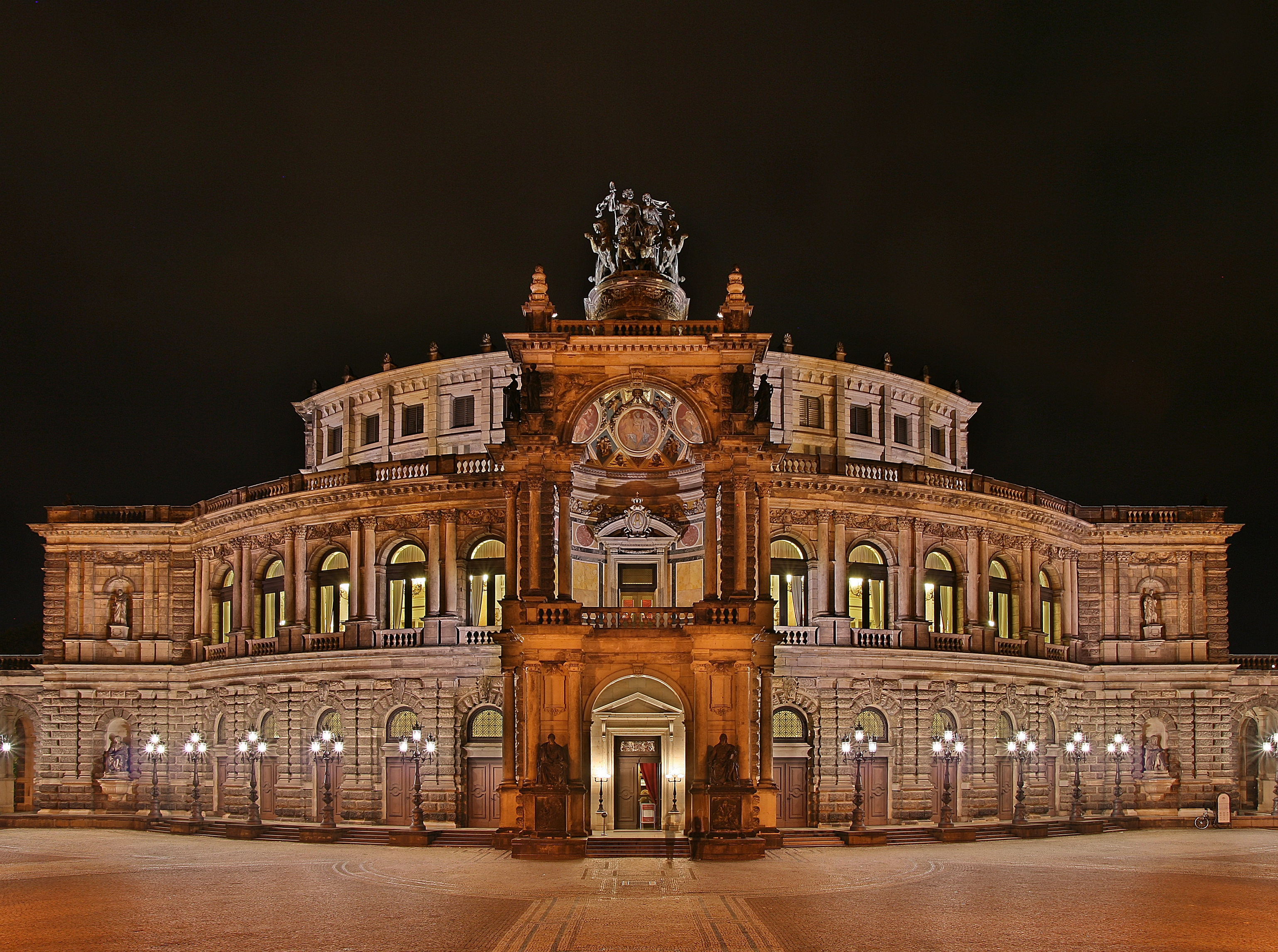 The Semper Opera in Dresden at night